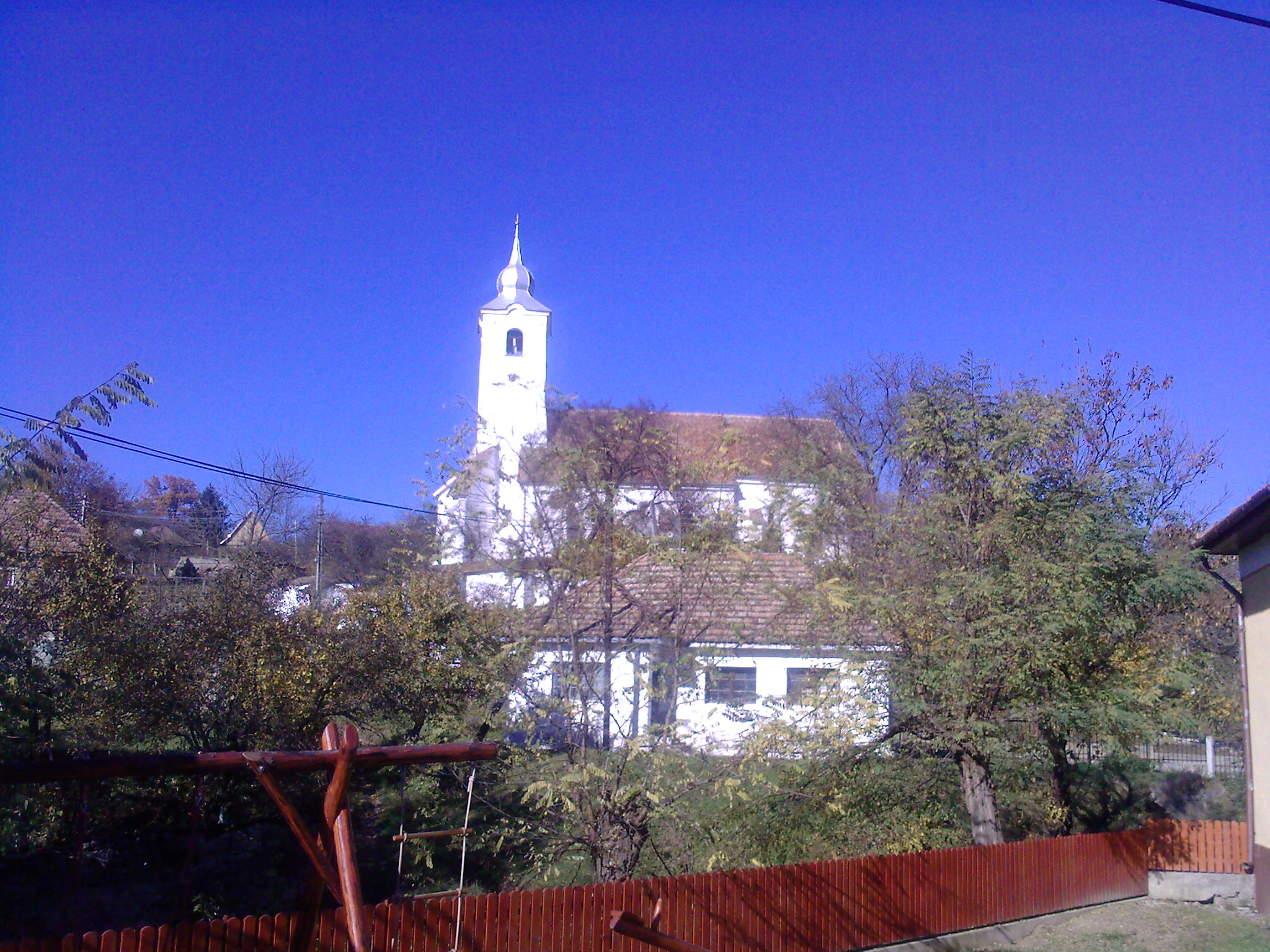 Harghita County, Porumbenii Mari, Reformed Church